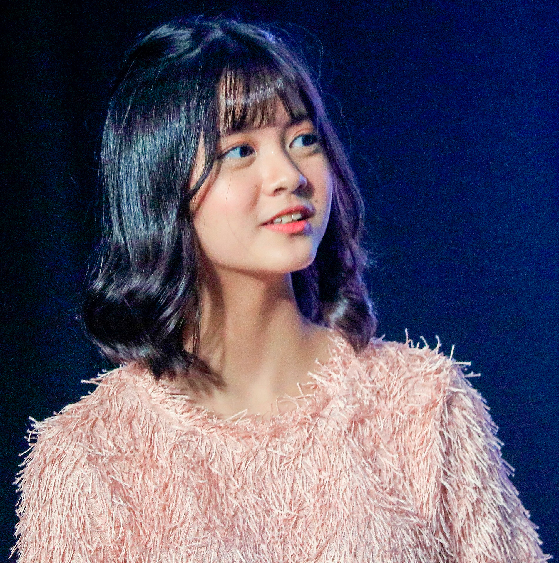 Angelina Christy (Christy) stage activity at JKT48 Joy Kick Tears Handshake Festival Surabaya.